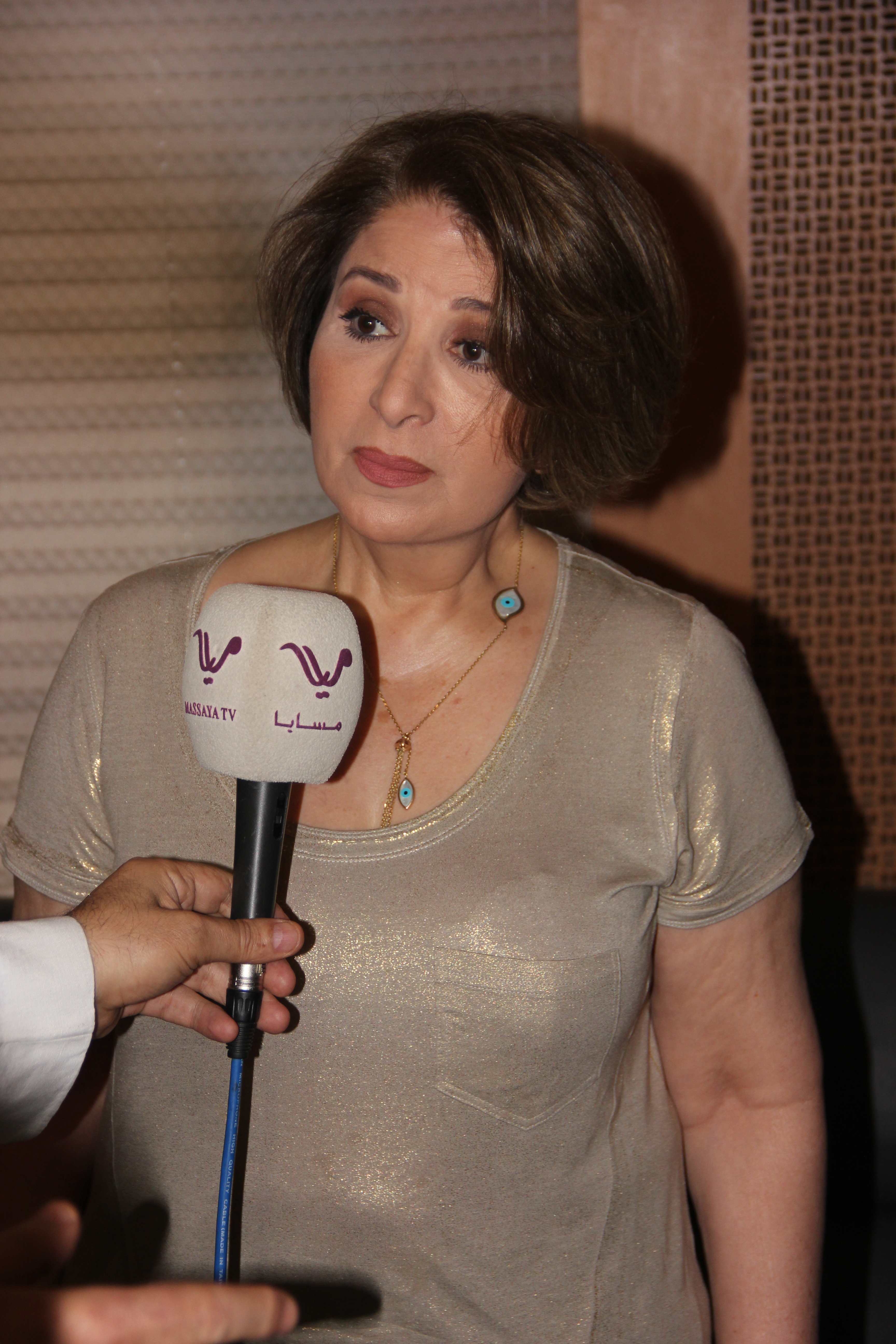 Thought and Culture Festival in Alexandria